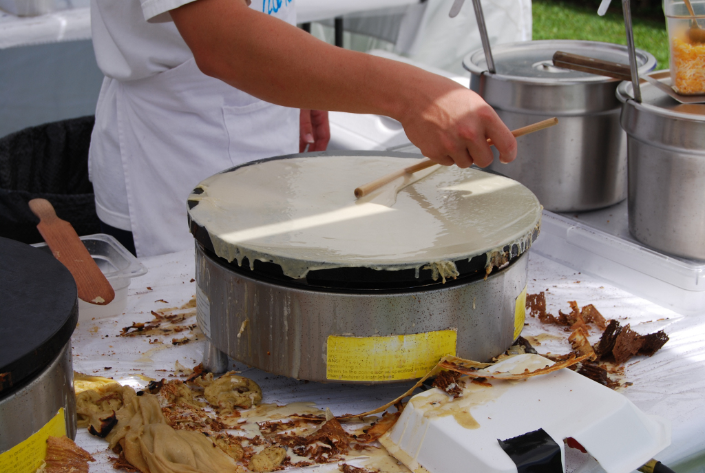 making the crepe